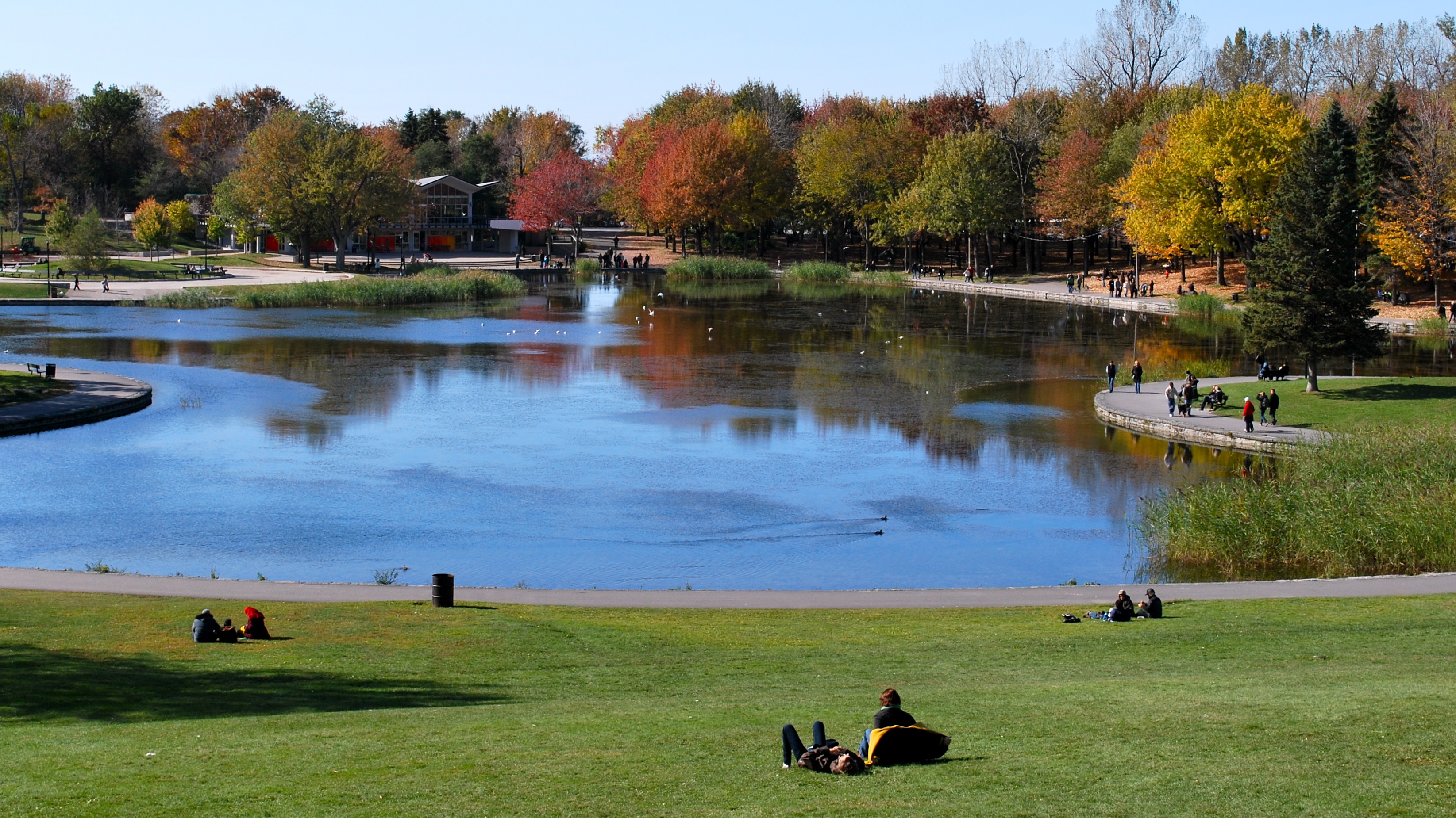 Parc Mont Royal: Beaver Lake in the Fall